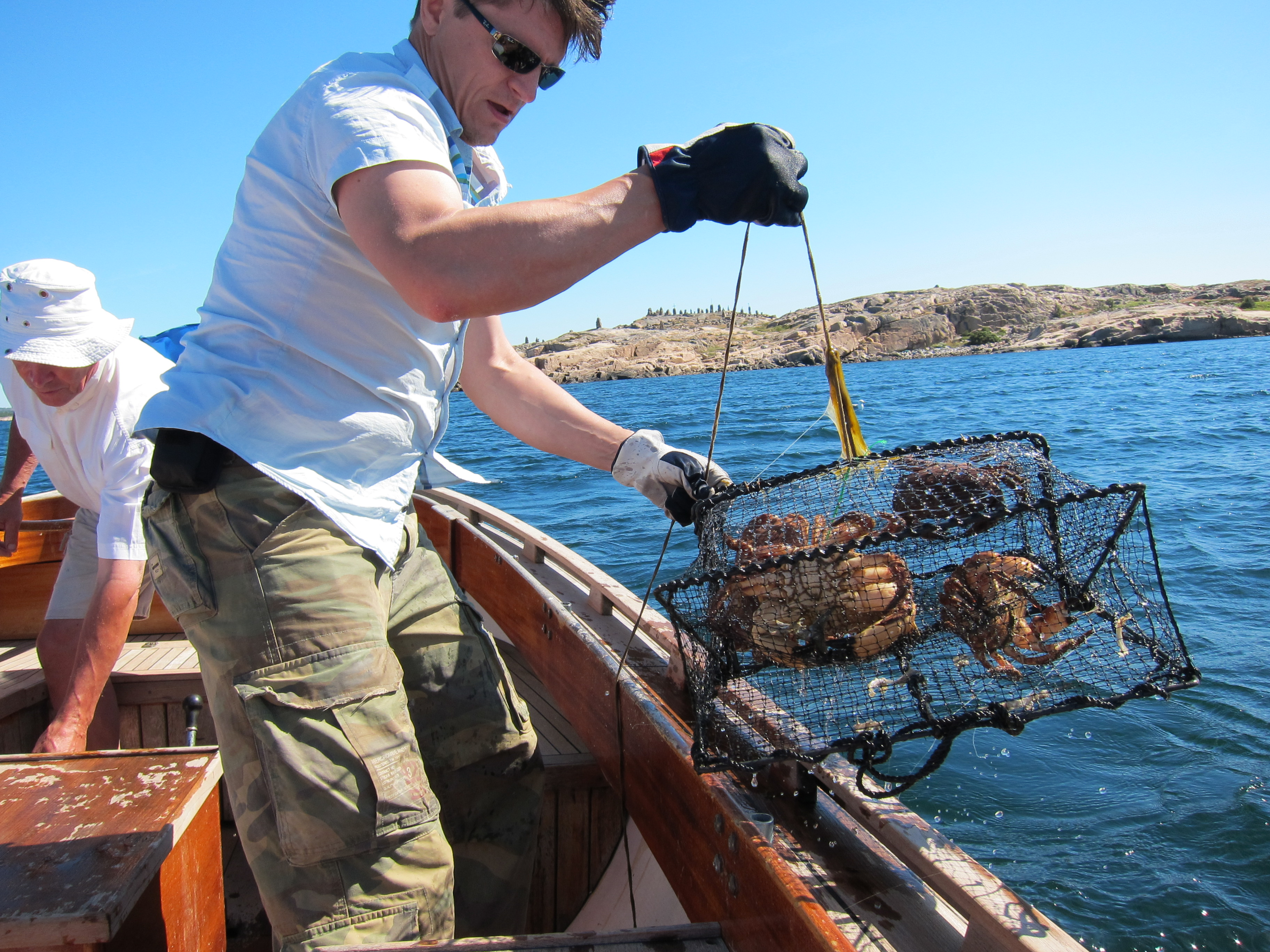 Crabfishing in the west coast archipelago of Sweden, near otteron, Tanum.